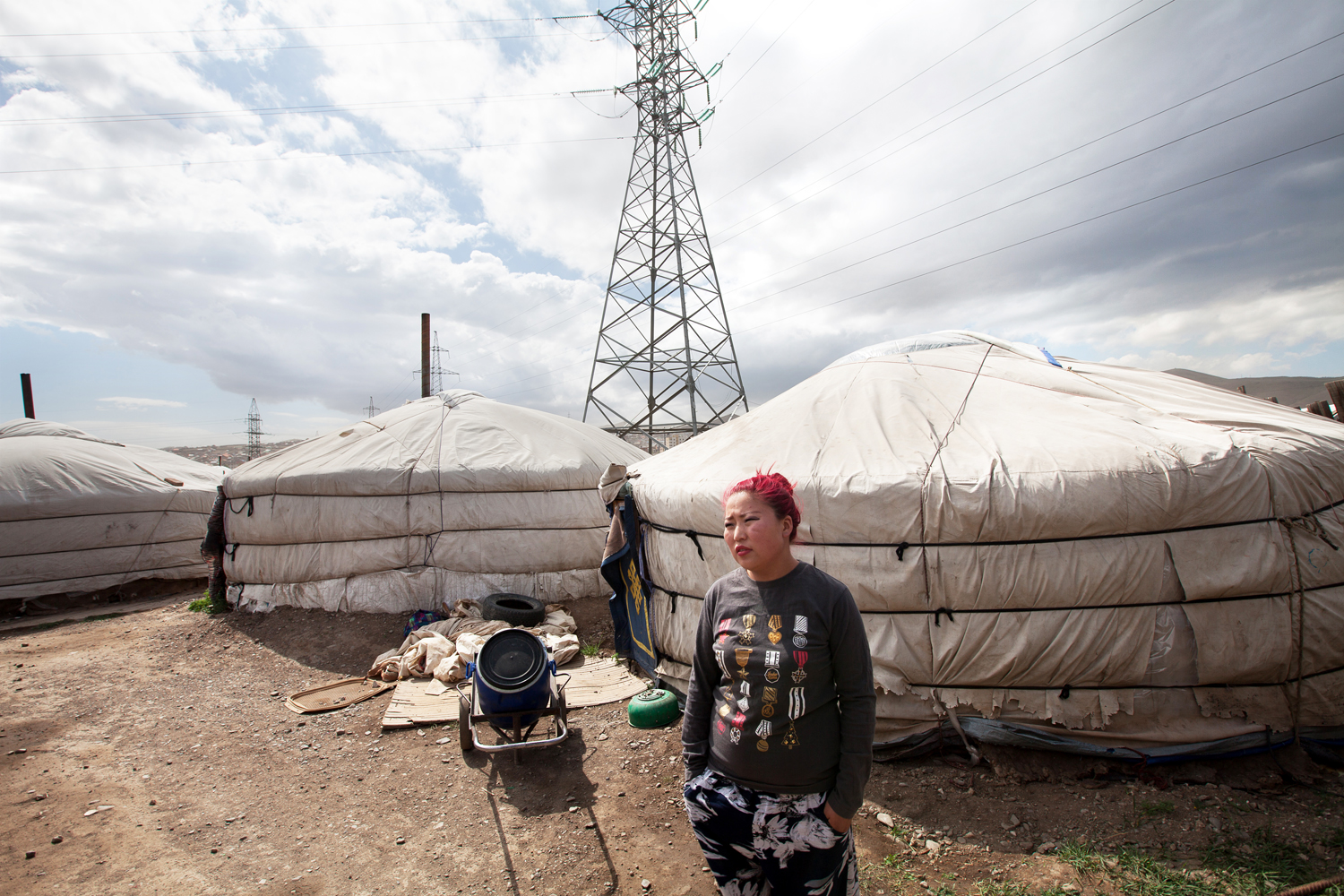 Ger District near power plant, Ulaanbaatar.